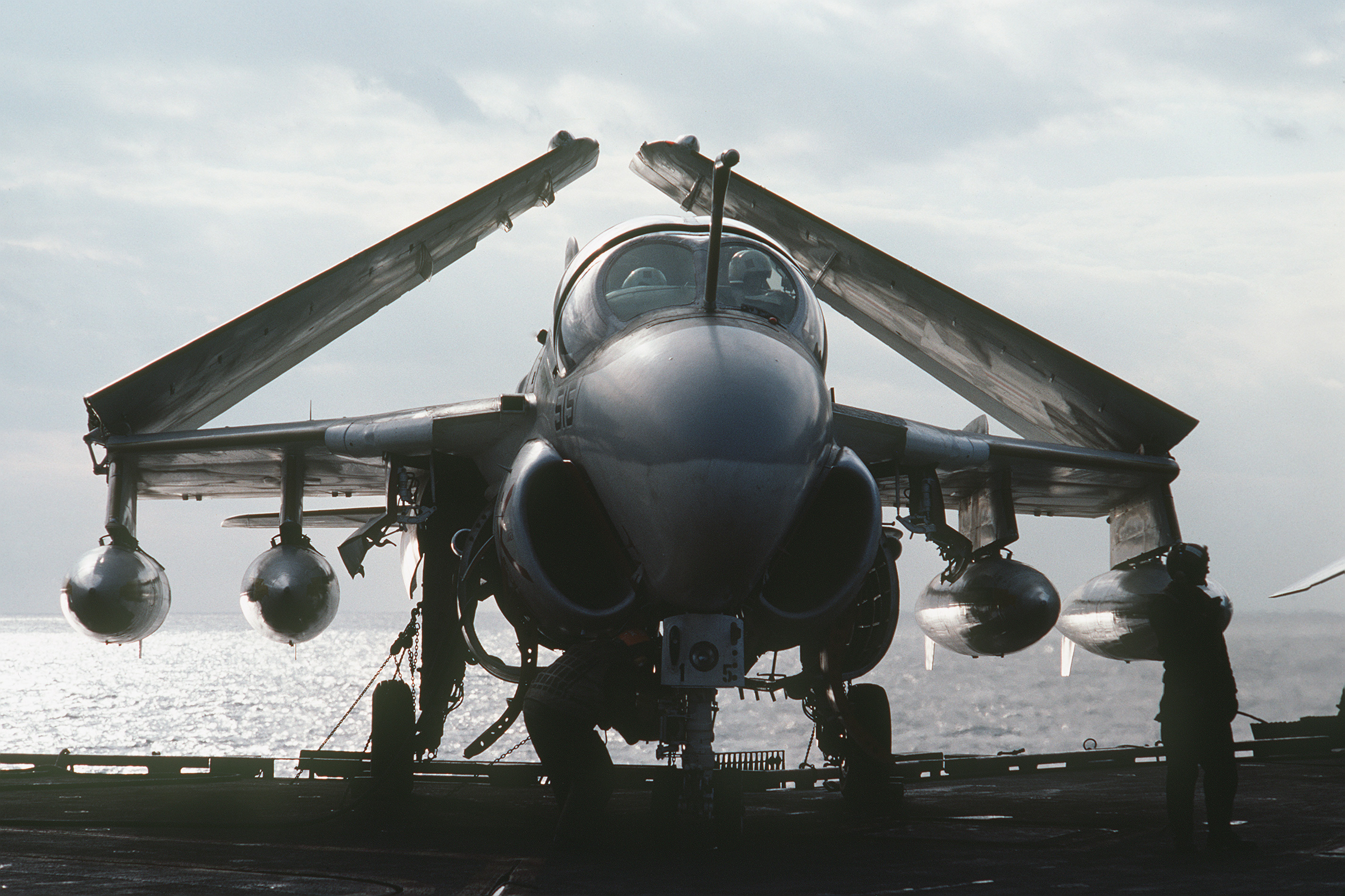 U.S. Navy flight deck crewmen service a Grumman KA-6D Intruder aircraft (BuNo 152906) from attack squadron VA-115 Eagles aboard the aircraft carrier USS Midway (CV-41), 1 November 1981.